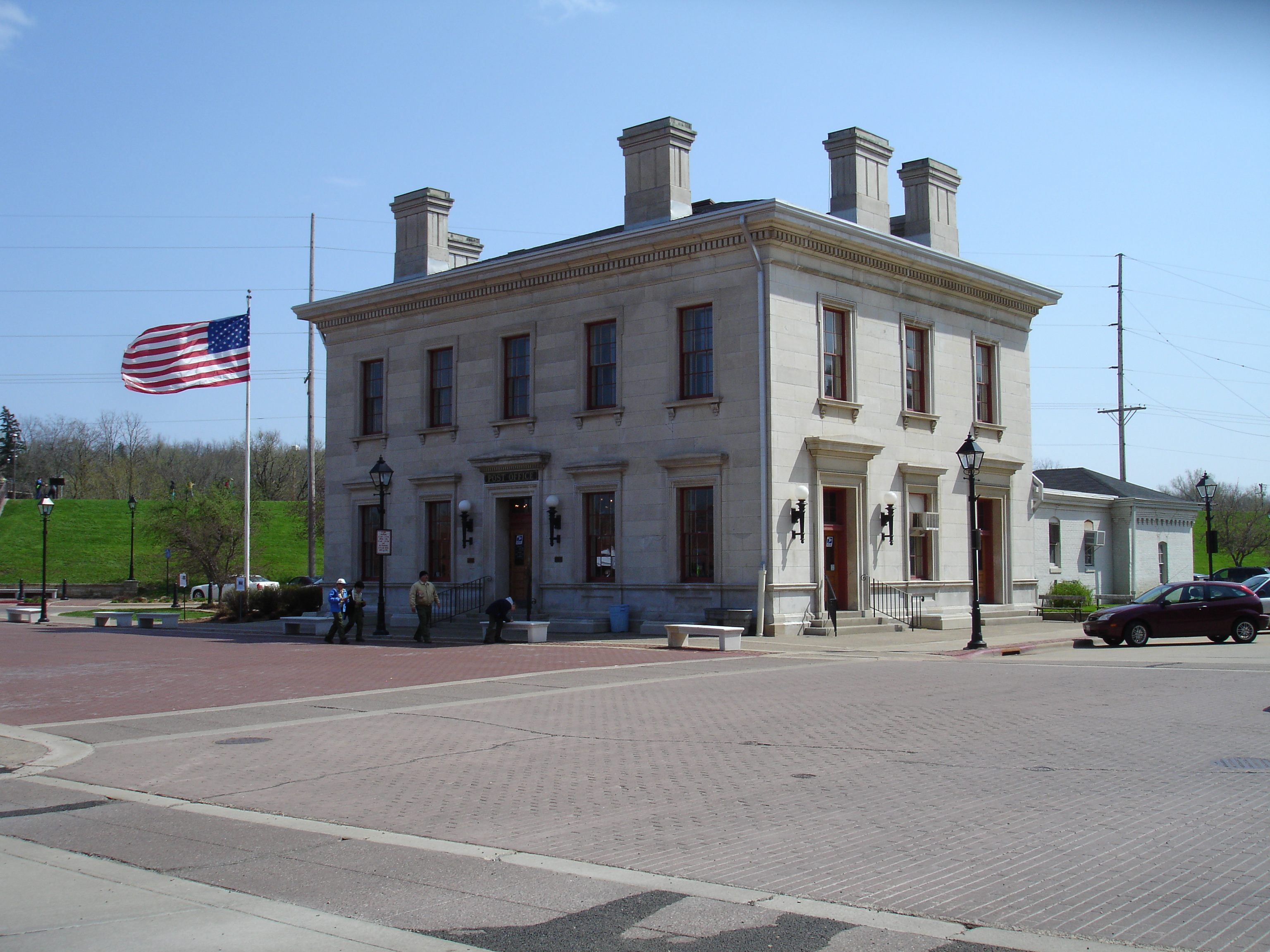 Galena Customs House & U.S. Post Office, part of the Galena Historic District and still operating as a U.S. Post Office. Built in 1858. U.S. National Register of Historic Places.